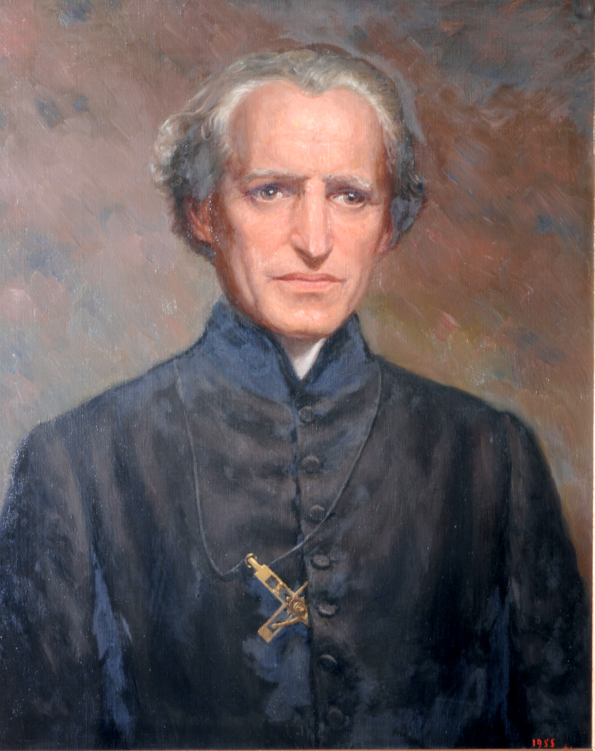 Image of Basil Moreau, C.S.C., founder of the Congregation of Holy Cross.